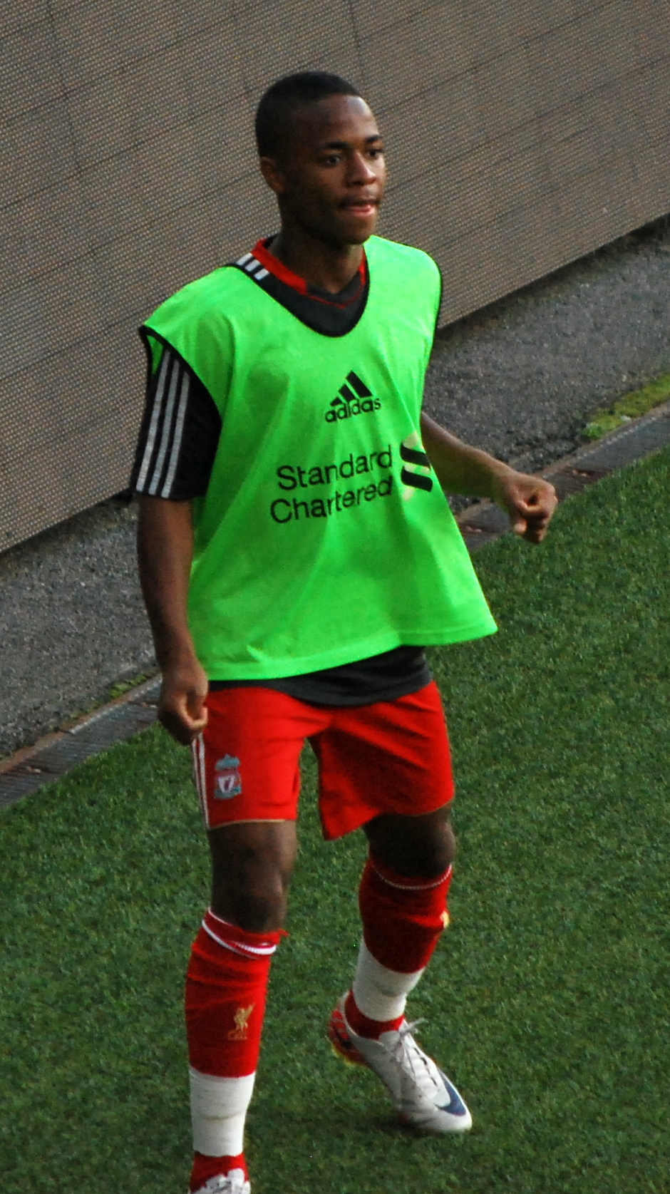 Raheem Sterling during pre-season friendly Vålerenga v. Liverpool on 1st August 2011 at Ullevål. Result: 3-3.